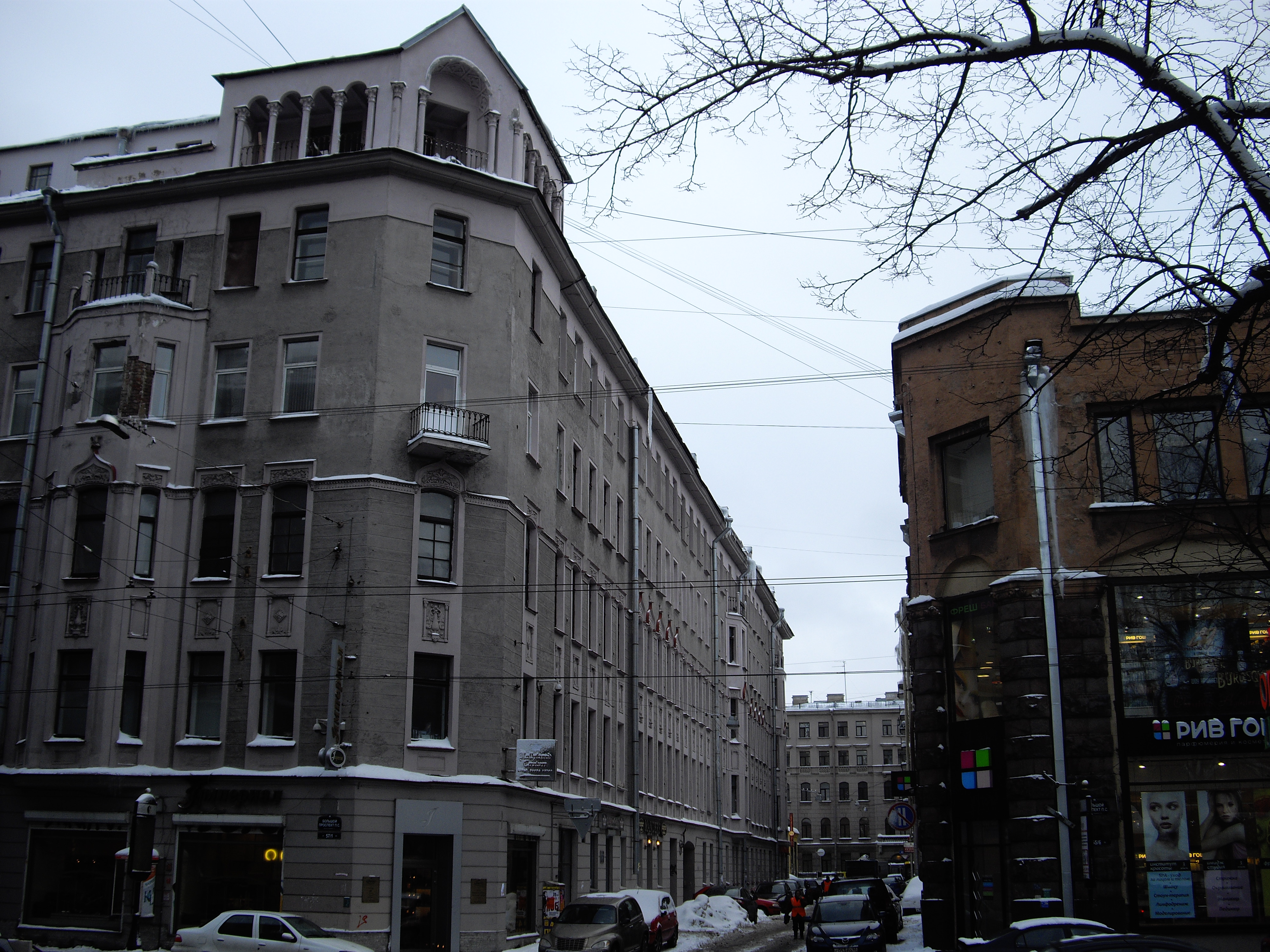 Podkovyrova Street (Saint Peterburg, Russia) between Bolshaya Pushkarskaya Street and Bolshoy Prospekt (Petrograd Side)